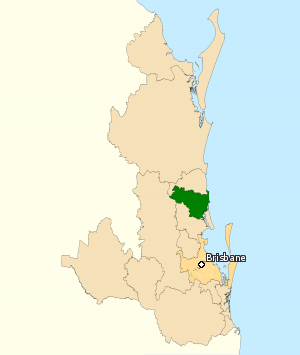 This image incorporates data that is: © Commonwealth of Australia (Australian Electoral Commission) 2009 Division of Fisher 2010